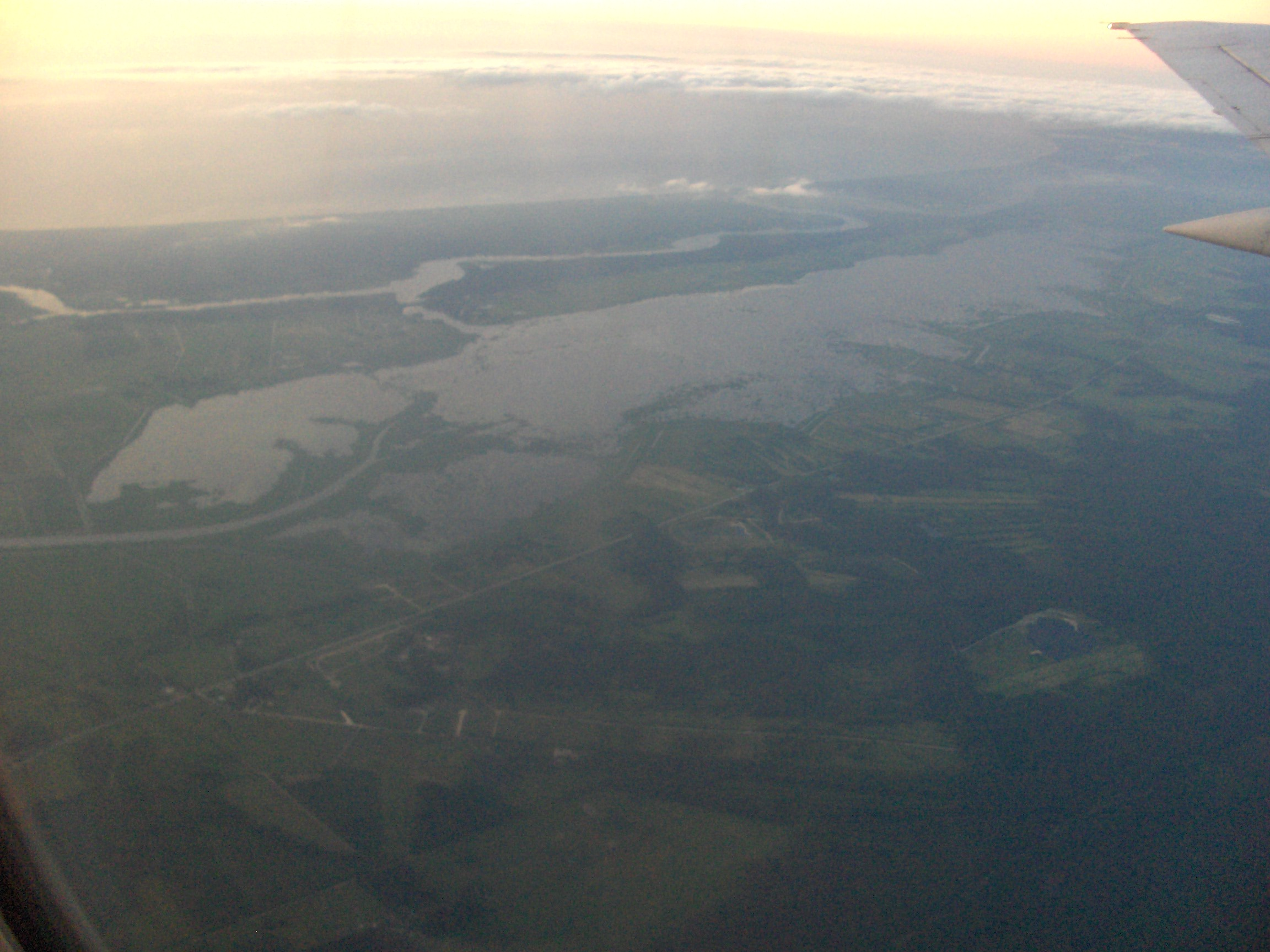 Lake Babites